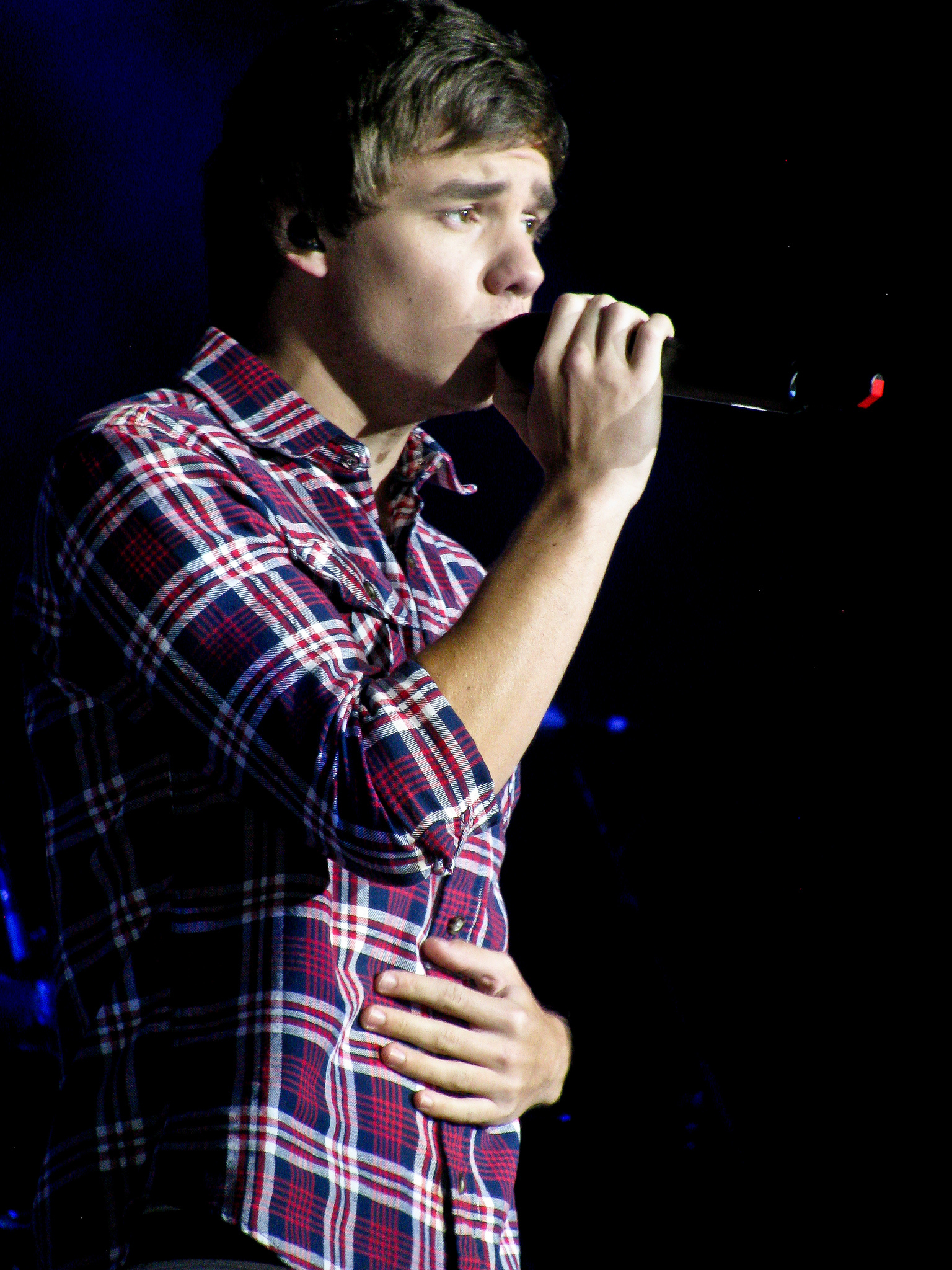 One Direction, Molson Canadian Amphitheatre, Toronto, Ontario, May 29, 2012.